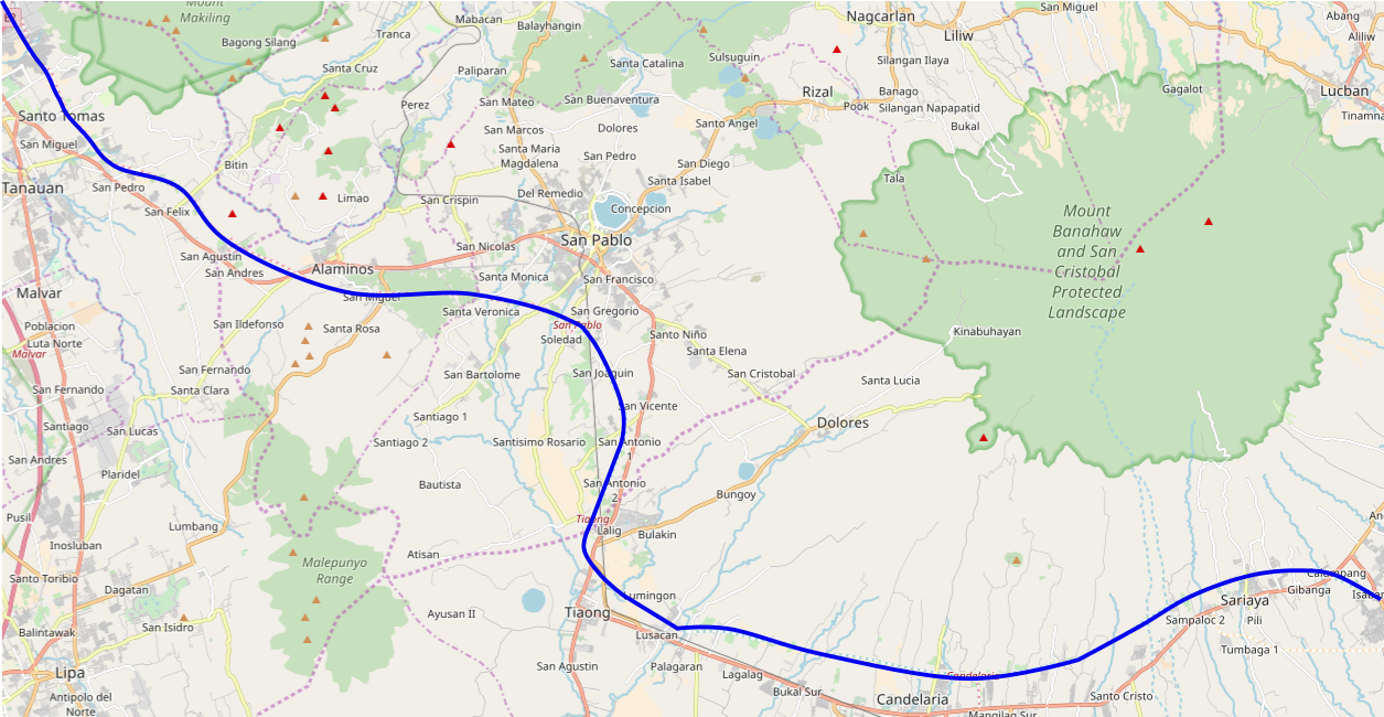 Map of proposed alignment of South Luzon Expressway Toll Road 4, based on information by the Department of Public Works and Highways